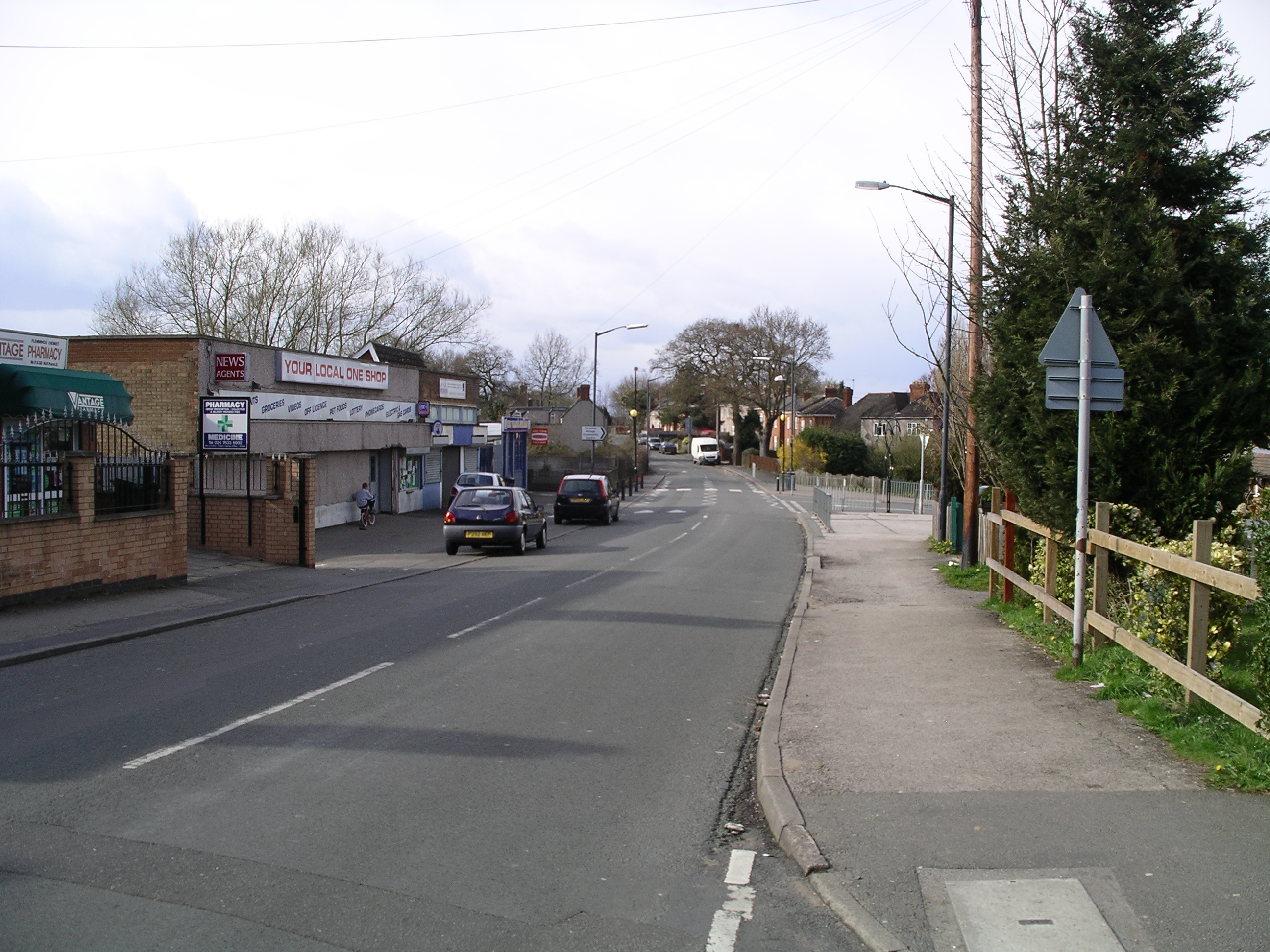 Keresley End, Warwickshire, England. Photo of Bennetts Rd North, near Howat Road (the turning to the right in the photo). Photo taken on a Sunday and the shutters are down in the shops show.